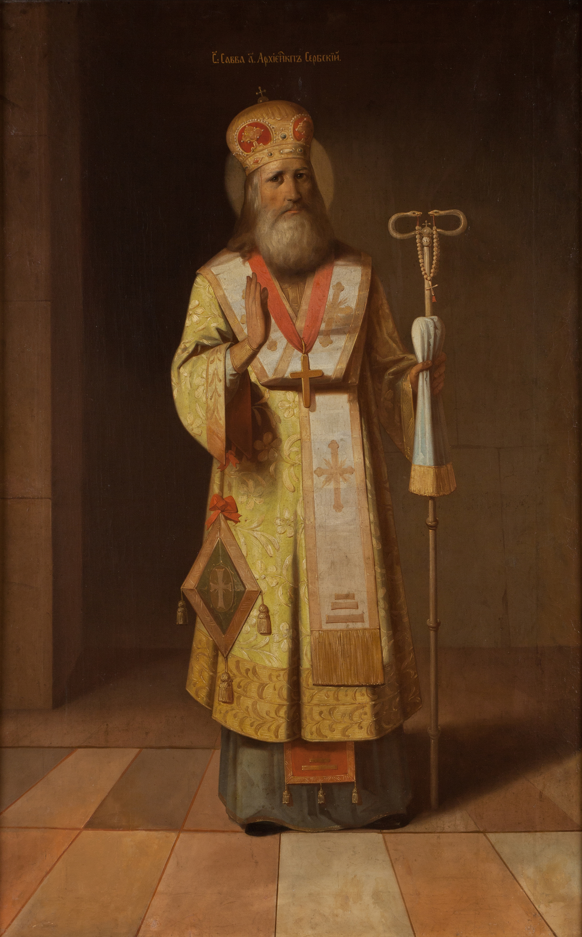 Sveti Sava, Dimitrije Avramović, 1852.